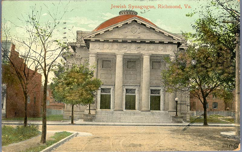 Postcard of Temple Beth Ahaba, Richmond, Virginia; postmarked 1914.